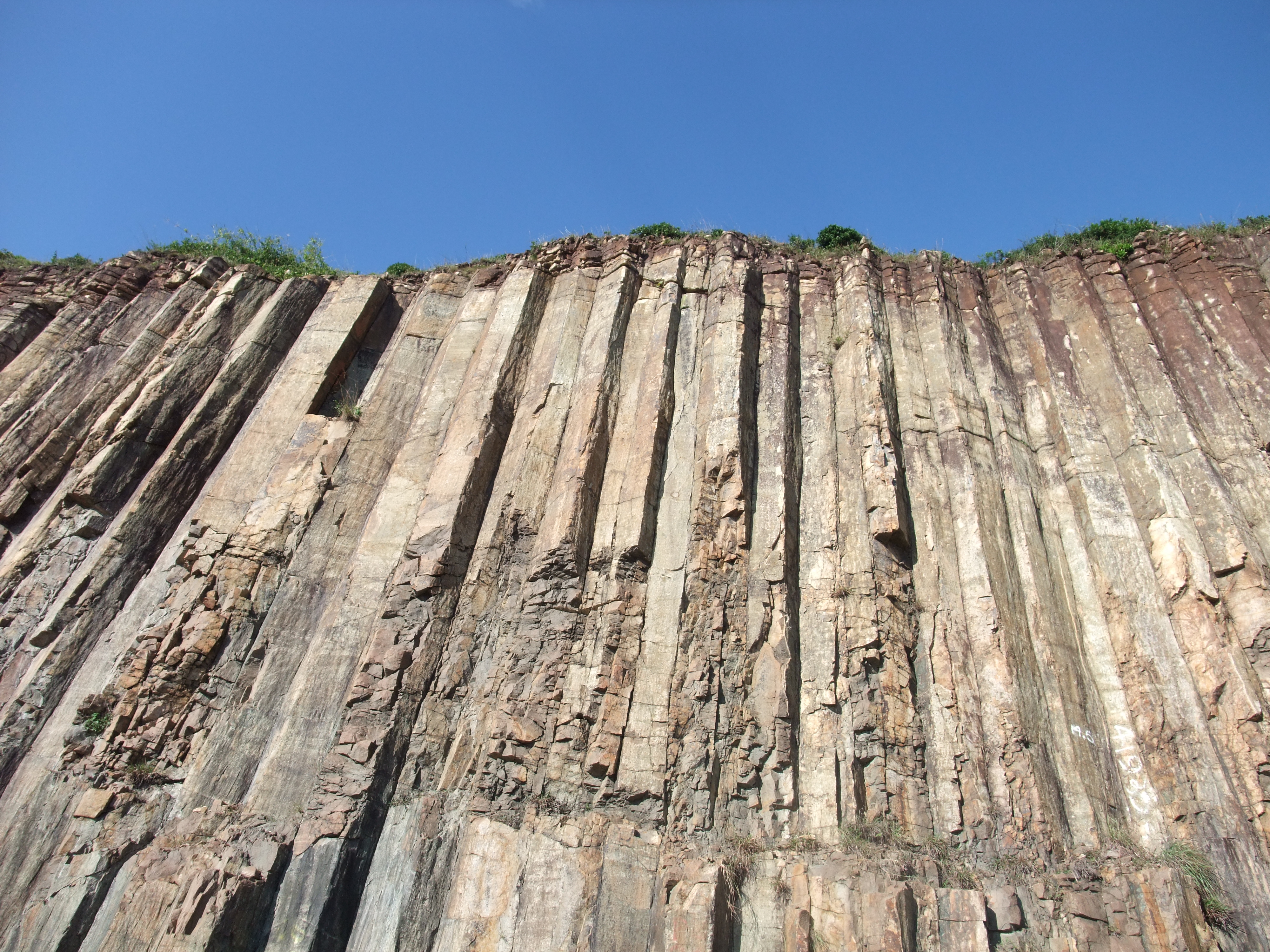 Photo of hexagonally-jointed columns of rhyolite volcanic tuffs at East Dam of High Island Reservoir